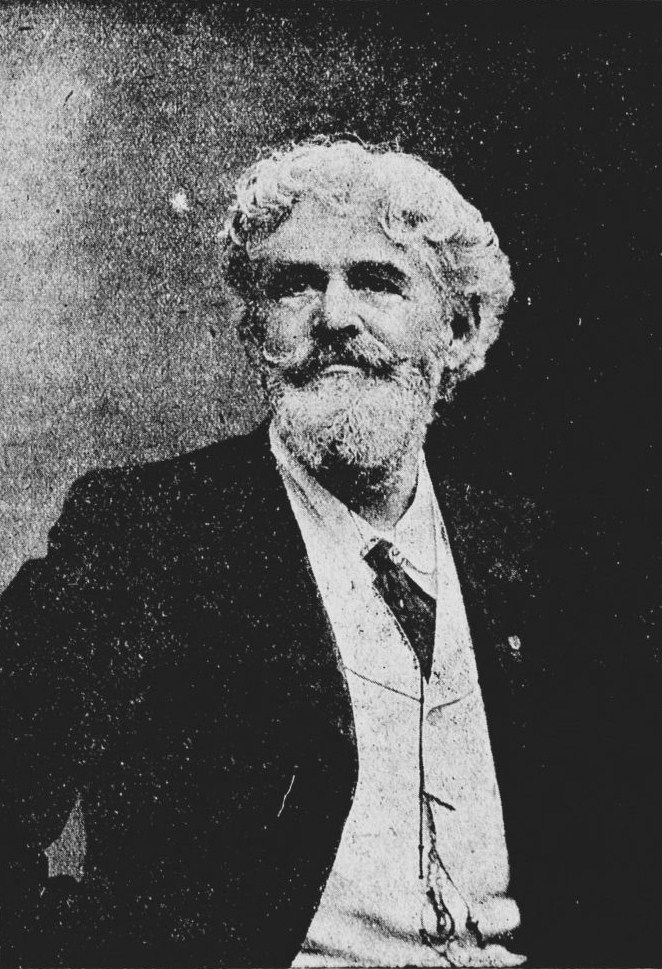 Portrait du poète et goguettier Ernest Chebroux.